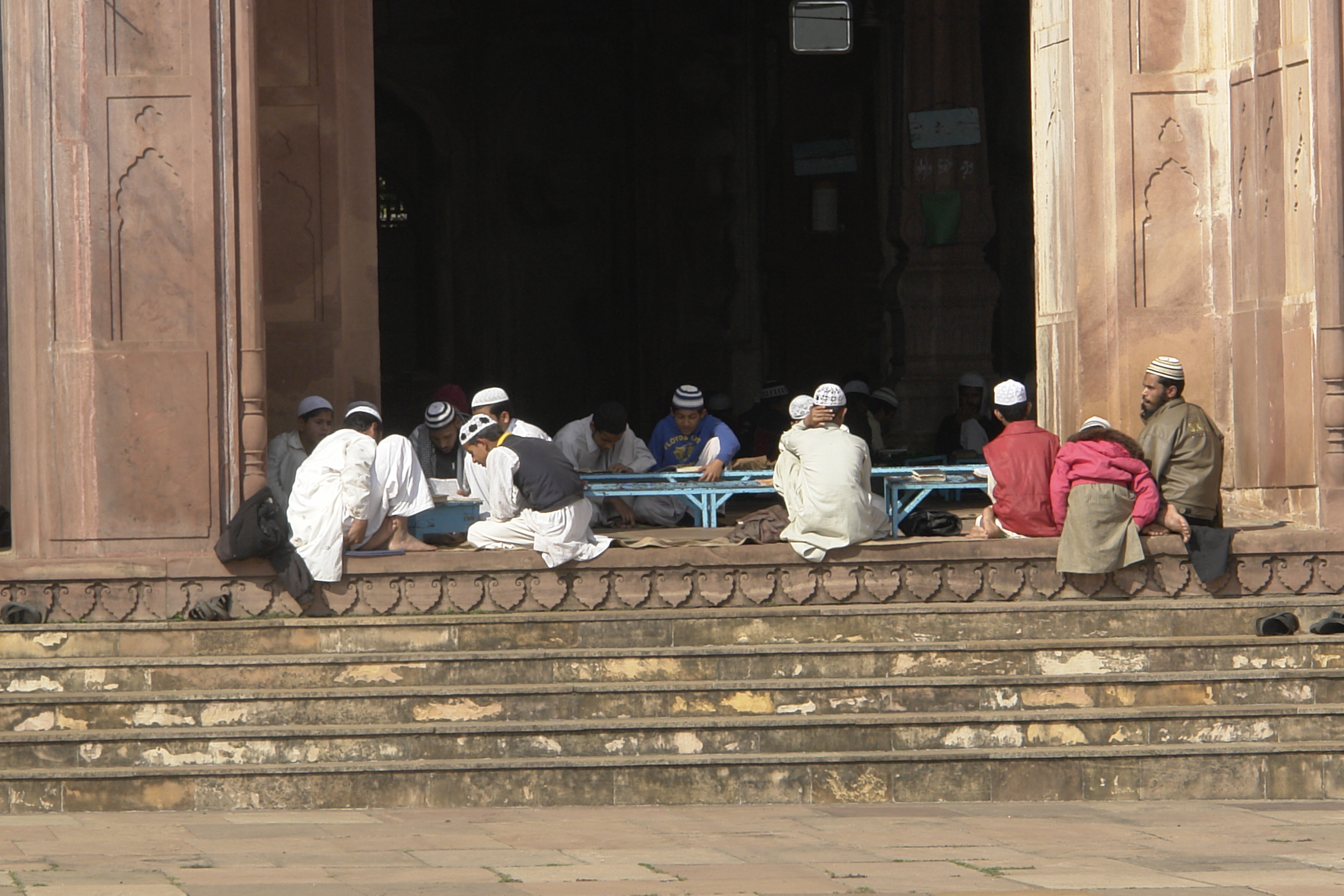 Madrasah in Taj-ul-Masjid, Bhopal, India.